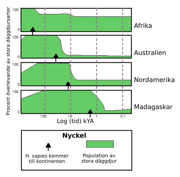 The percent of megafauna on different land masses over time, with the arrival of humans indicated.